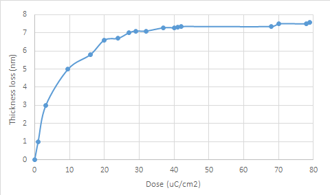 The exposure of a leading EUV chemically amplified resist by an 80 eV flood electron beam can lead to resist thickness loss up to ~7.5 nm. The 80 eV represents typical EUV photoelectron energy, so resist dimensions requiring control to within ~15 nm would be affected. Ref.: Y. Kandel et al., Proc. SPIE 10143, 101430B (2017).